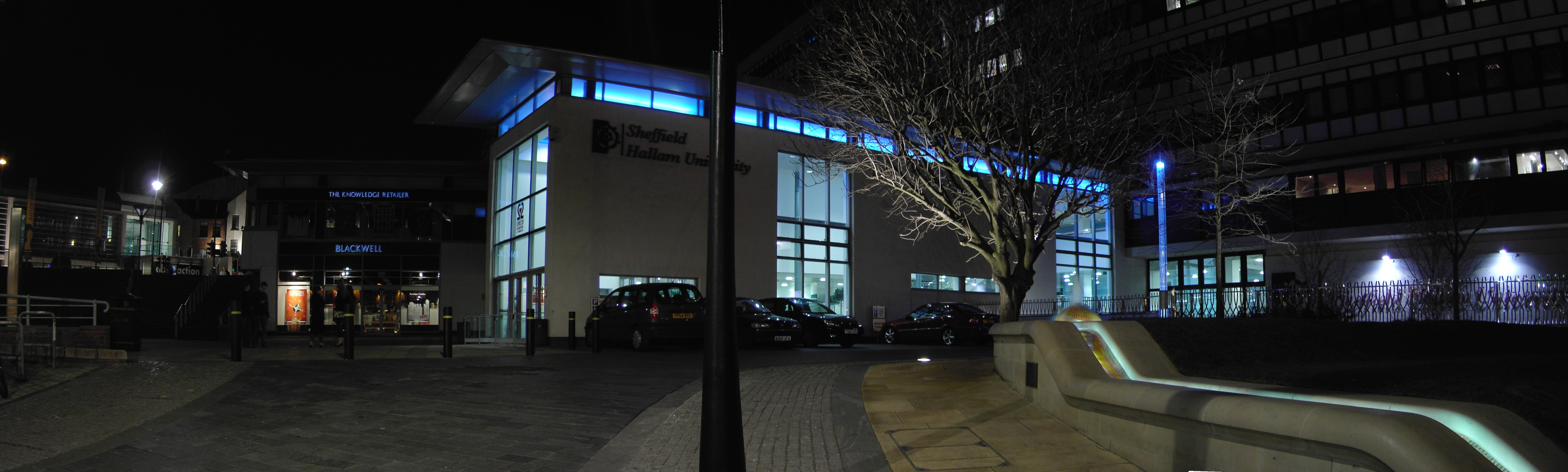 Main Entrance of Sheffield Hallam University City Campus